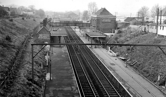 Billericay Station. Near to Billericay, Essex, Great Britain. View westwards, towards Shenfield and London; Shenfield - Southend (Victoria) line (electrified 1956).